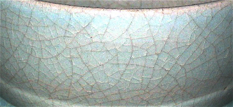 Ru Ware Bowl Stand Detail of Glaze/Crazing, Victoria & Albert Museum no. FE.1-1970; for further information, see website [1]